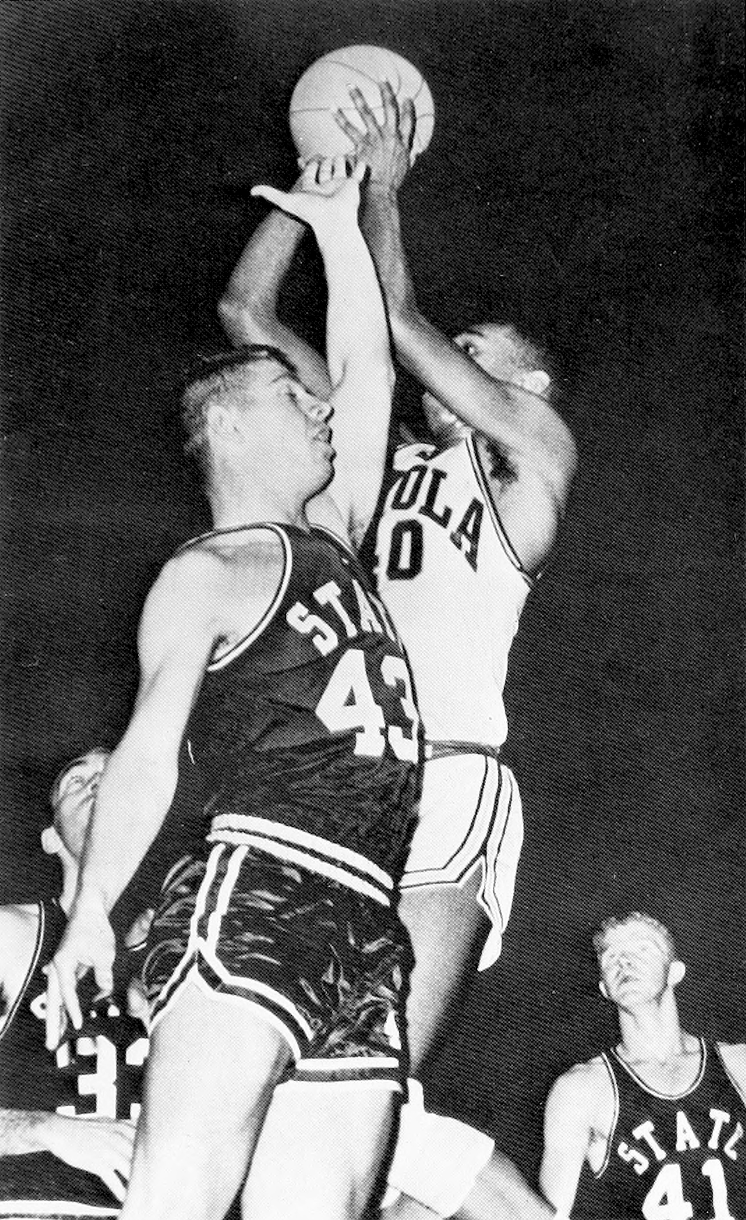 Vic Rouse (#40), a junior forward for the Loyola Ramblers, shoots over Aubrey Nichols (#43), a junior for the Mississippi State Bulldogs, in the historic "Game of Change" during the regional semifinals of the 1963 NCAA University Division Basketball Tournament. Also visible in the background is Mississippi State's W. D. "Red" Stroud (#41).This photo was scanned from the 1963 edition of the Loyolan, the yearbook of Loyola University Chicago. It appeared on page 315 with the caption, "Vic Rouse soars high for a basket against Mississippi State in Regional Semi-finals."